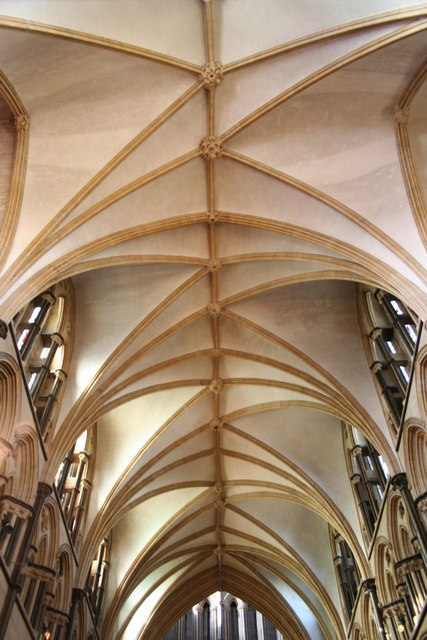 Lincoln Cathedral: Crazy vaulting Asymmetrical vaulting in St.Hugh's choir ... called crazy vaulting or syncopated vaulting.